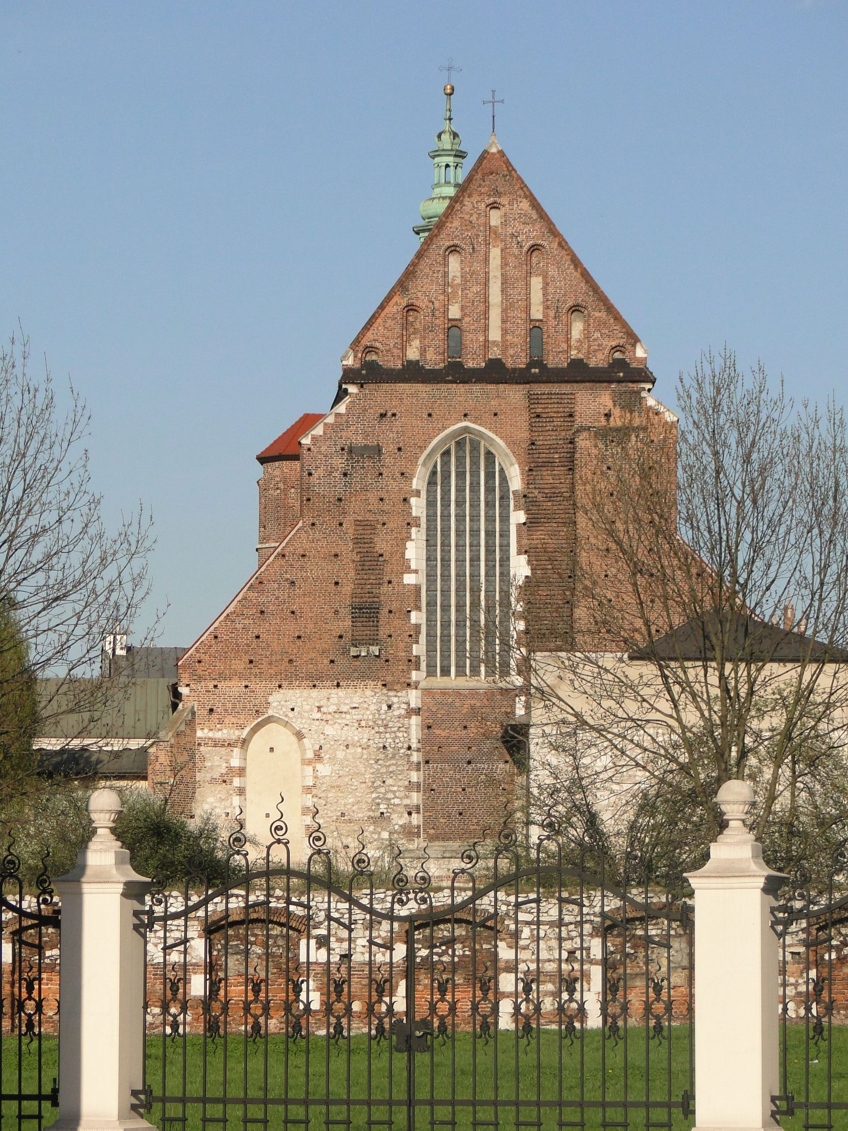 Church of St. Catherine in Kraków